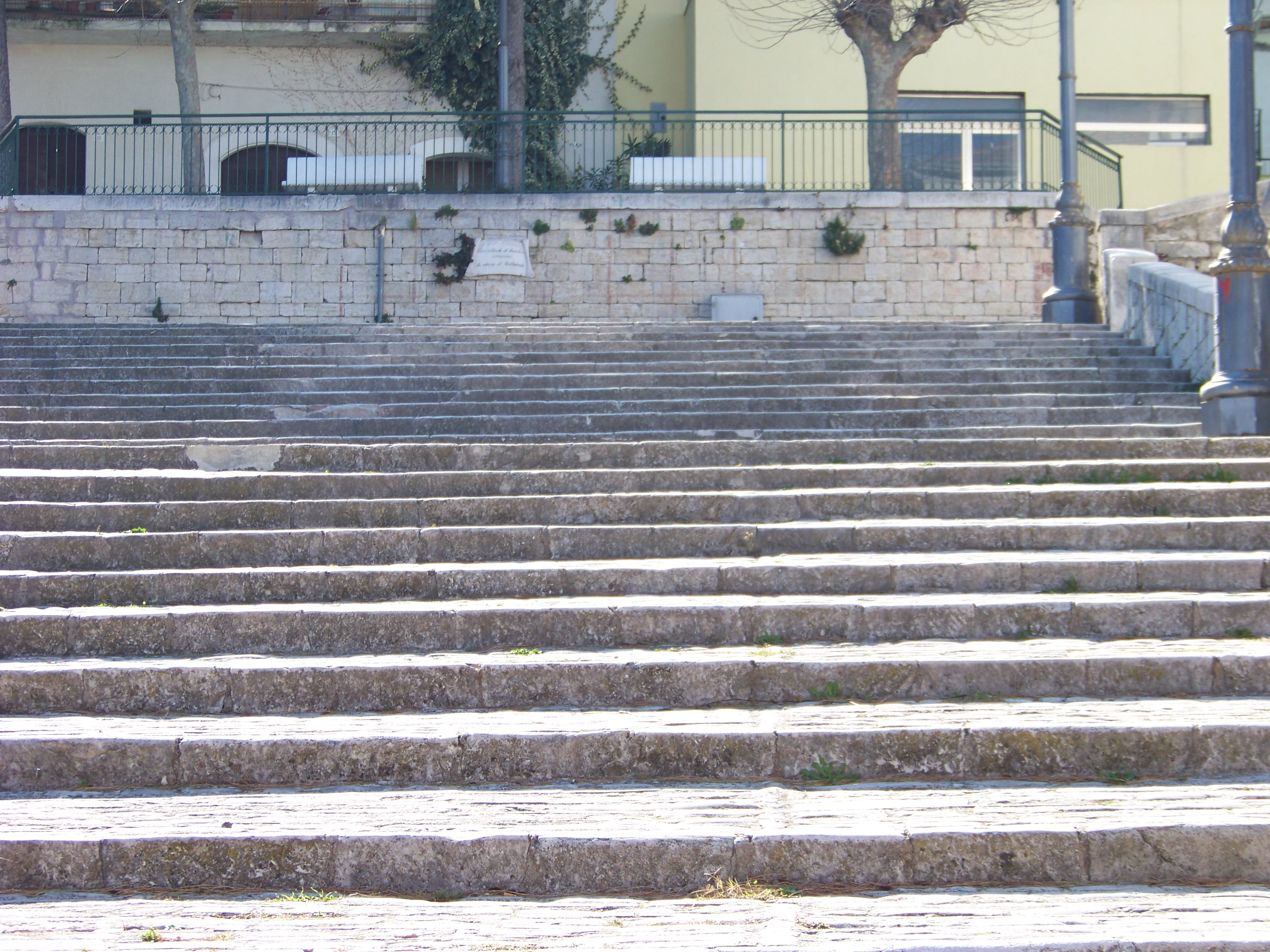 stair - step in Colletorto (detail)